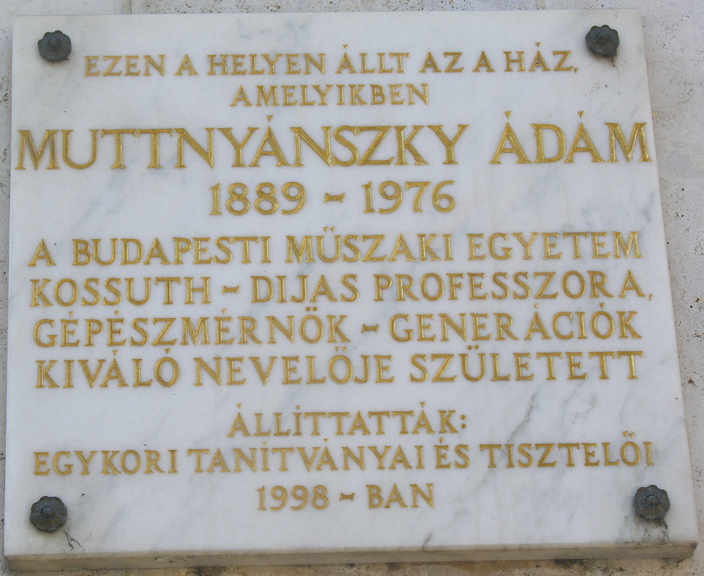 Commemorative plaque of Ádám Muttnyánszky (Hungarian mechanical engineer, professor), Budapest District II, Margit Boulevard No 8-10 (on the side Tölgyfa Street)